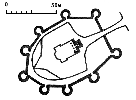 Coidanovsky Castle map